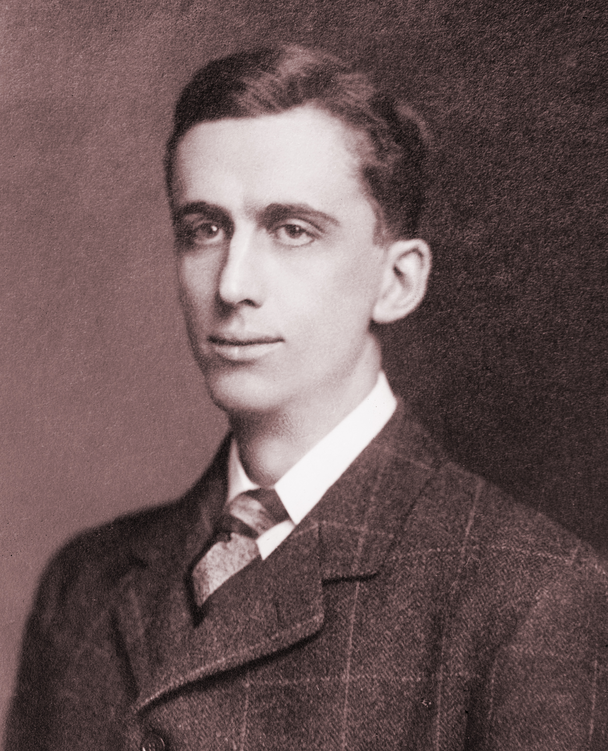 James Graham Phelps Stokes, American Socialist activist and philanthropist